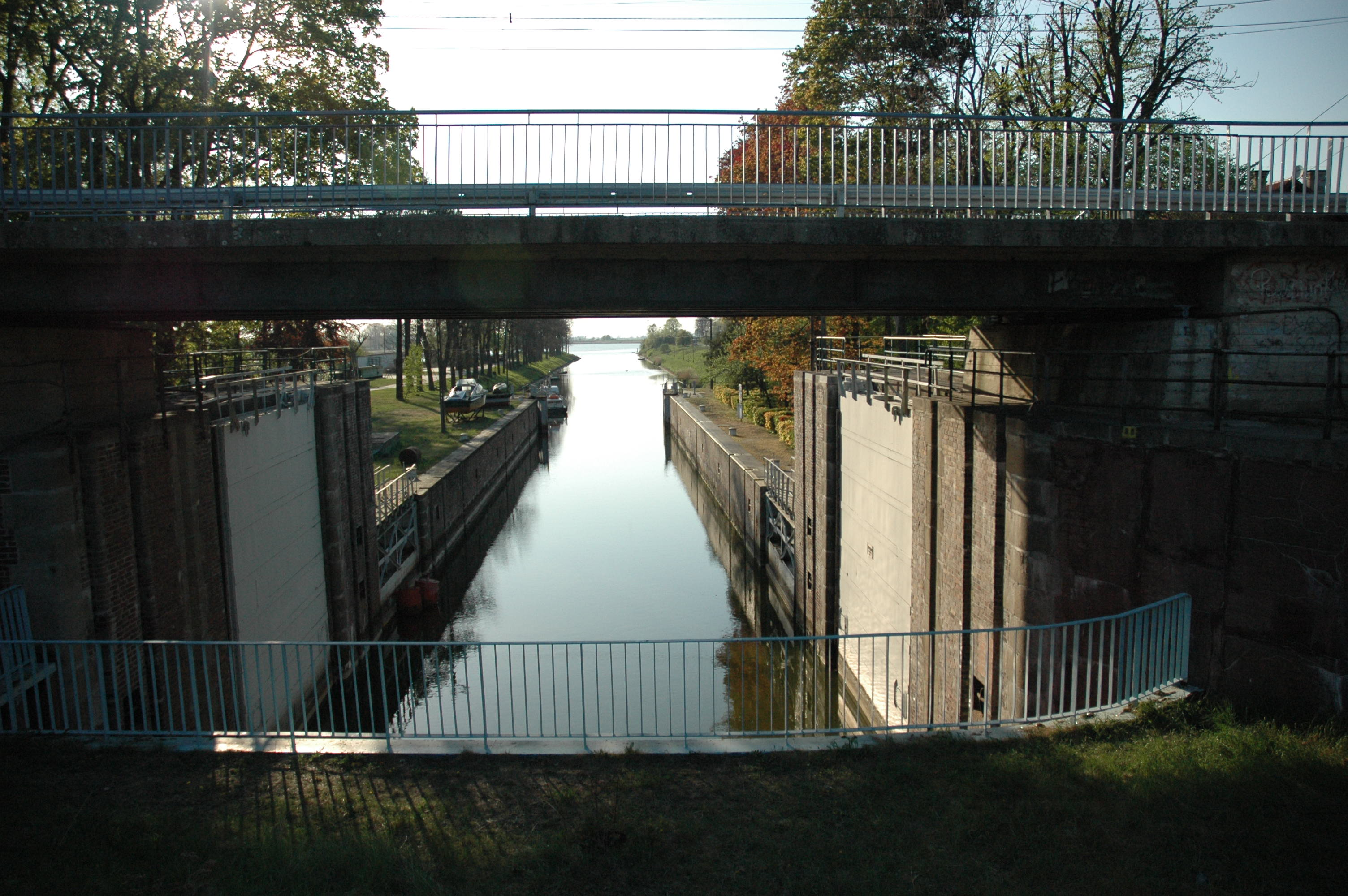 Poland, Lock in Przegalina by Gdańsk